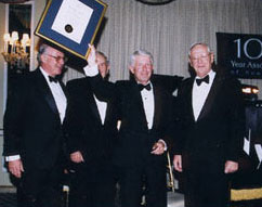 I, the Executive Director of this organization, grant permission to use this image on Wikipedia.